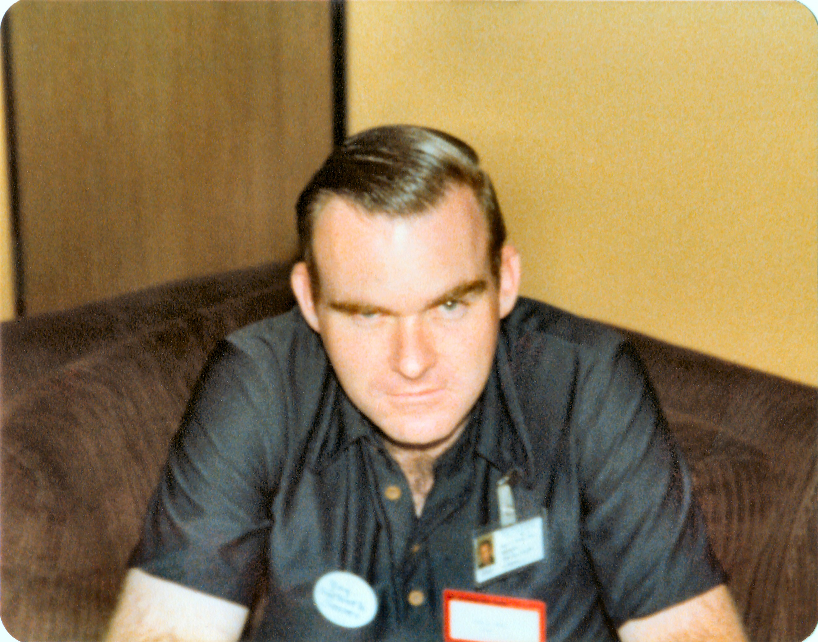 EOD Members IA04 at IguanaCon - Dr. Dirk W. Mosig - 2-Sep-1978.